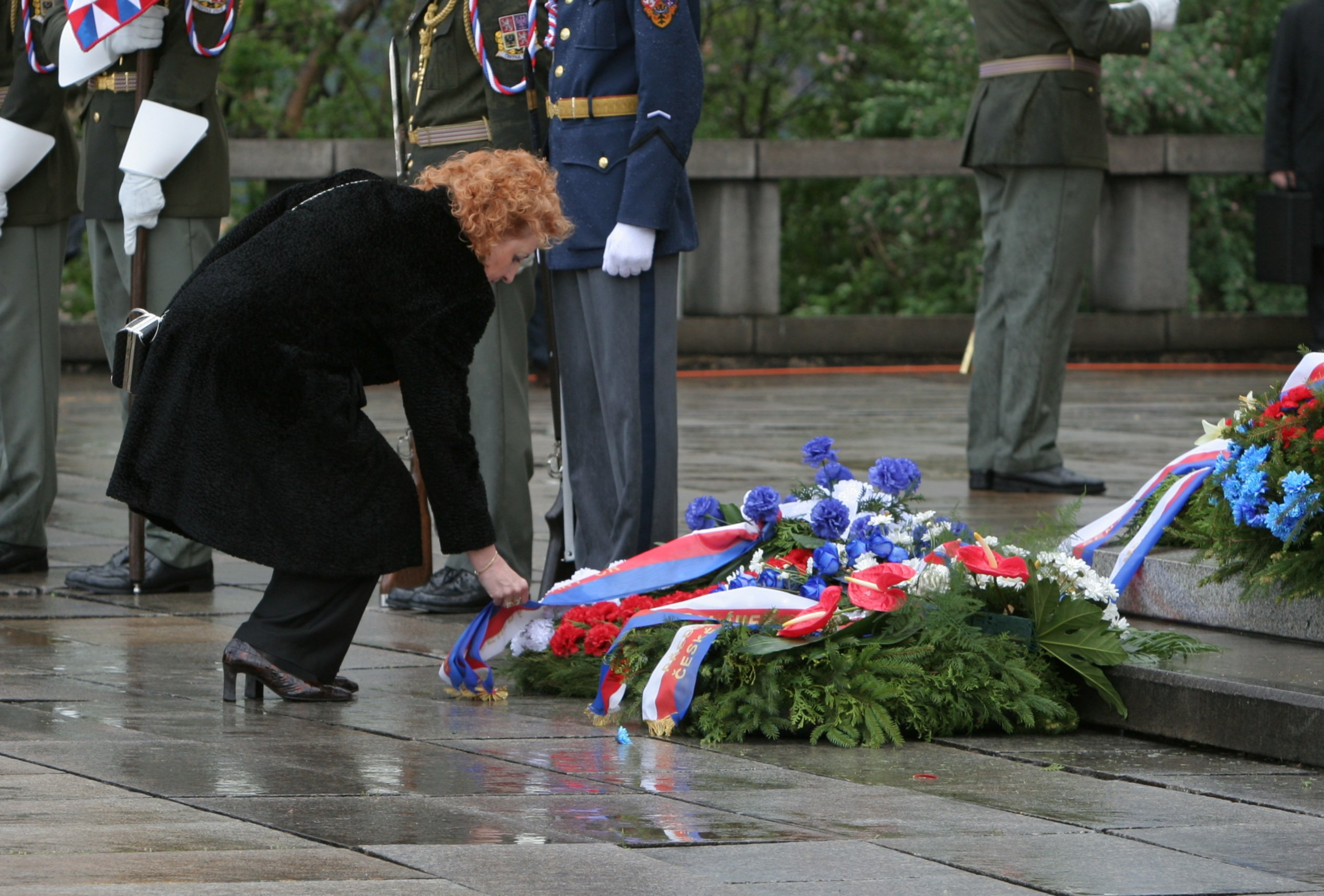 Vlasta Parkanová laying wreath to the National Memorial at Vítkov